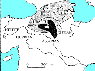 The territory of the Armenian language appears to have been roughly coincidental with that of the earlier non-IE Hurrian and closely related Urartian (with Dark shading). The poorly known and presumably related non-IE Etio language was to its north. Many of these languages occupied partially or wholly the earlier territory of the Kuro-Araxes culture (light shading). The nearest IE neighbors of the Armenians were the Hittites (and related Luvians and Palaic-speaking populations) who were not closely related to Armenian. Assyrian and Gutian are non IE languages. Burials with wheeled vehicles have been uncovered at Trialeti and Lchashen. (Source: “Armenians” in Encyclopedia of Indo-European Culture or EIEC, edited by J. P. Mallory and Douglas Q. Adams, published in 1997 by Fitzroy Dearborn.}